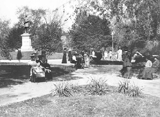 Dupont Circle in 1900, with a statue of Admiral Samuel Francis DuPont at its center. The statue was replaced in 1921 with the fountain that exists today.